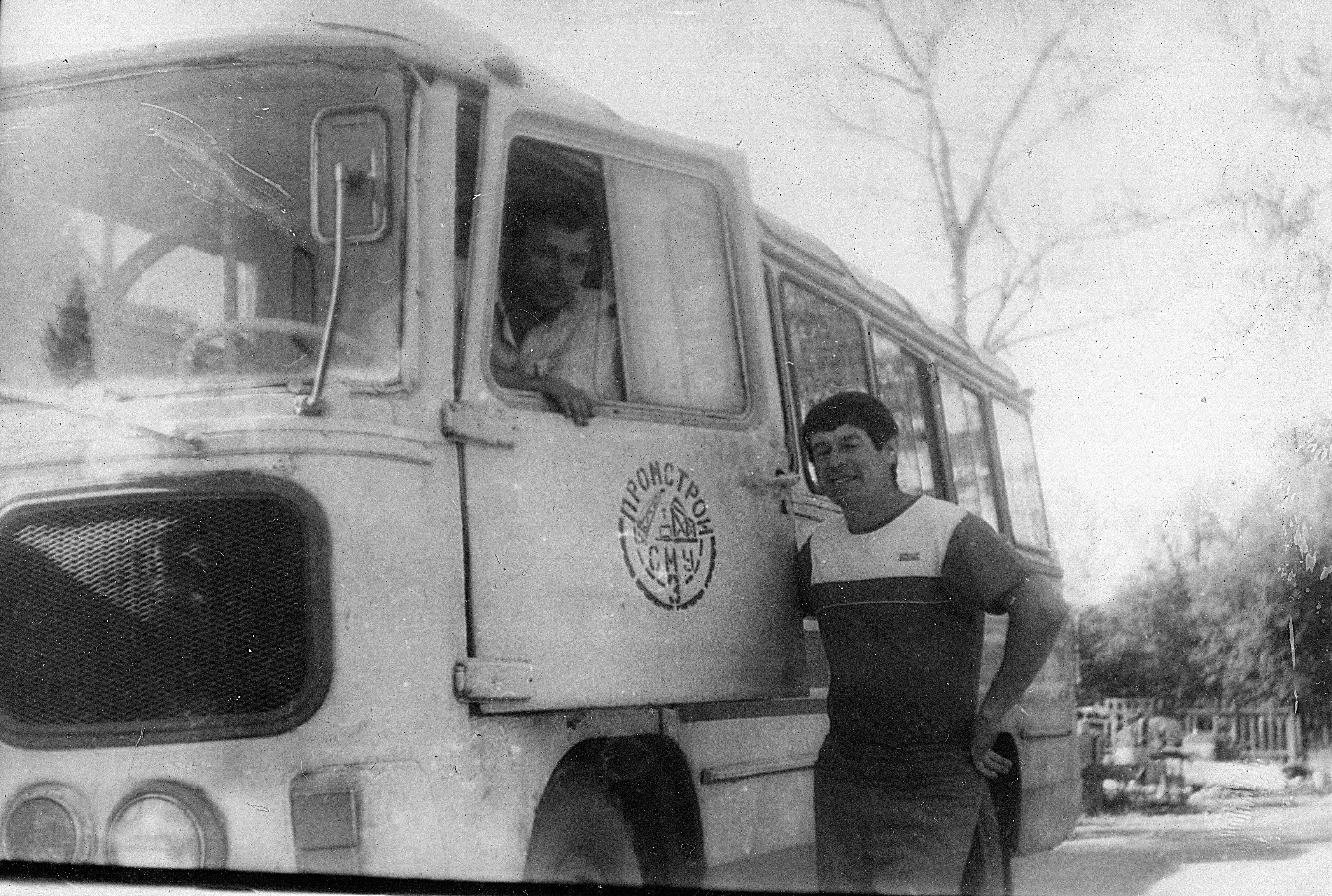 Drivers of the Promstroy cooperative (Nikolai Rodchenko and Anatoly Krizhanovskiy). They were involved in the transportation of people between the villages of Solnechny, Allakh-Yun and Ust-Maya in Yakutia in 1989-1990. And the transportation of goods: took cargo in the port of Ust-Maya. The workers of Promstroi (about 100 people) built (1) a building for BELAZ in Solnechny and (2) a building for the PROK-400 modular processing plant in Allakh-Yun for processing gold (400 tons of ore per day).